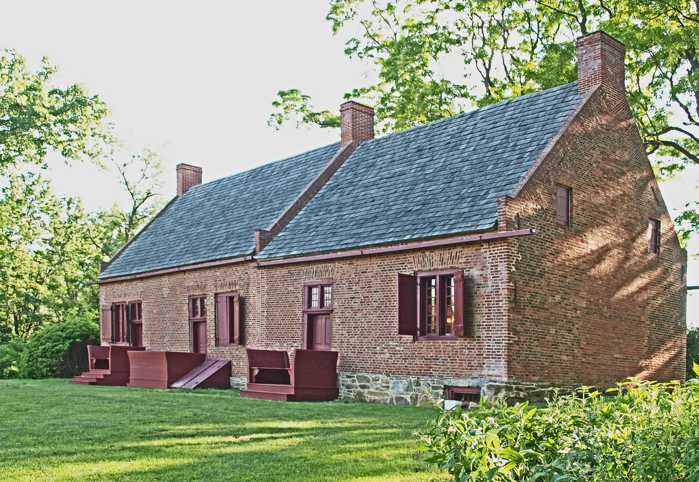 Built by early Dutch Settler in New York, Luykas Van Alen in 1737.